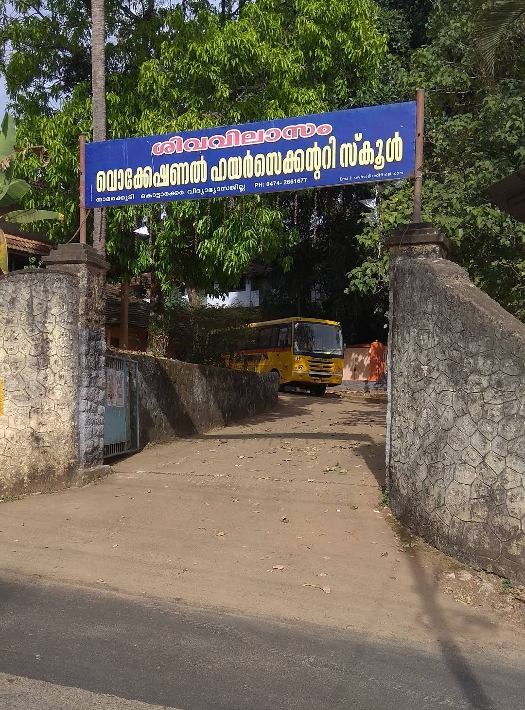 Image of Siva vilasam VHSS Thamarakudy